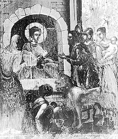 St George 16th century image produced from Anthivolon